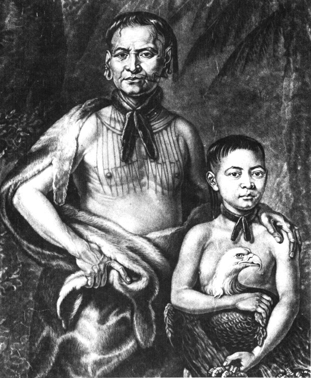 Tomochichi and his nephew Toonahowi, engraving by John Faber jr., made around 1734-1735 Category:United States history images Category:Portraits